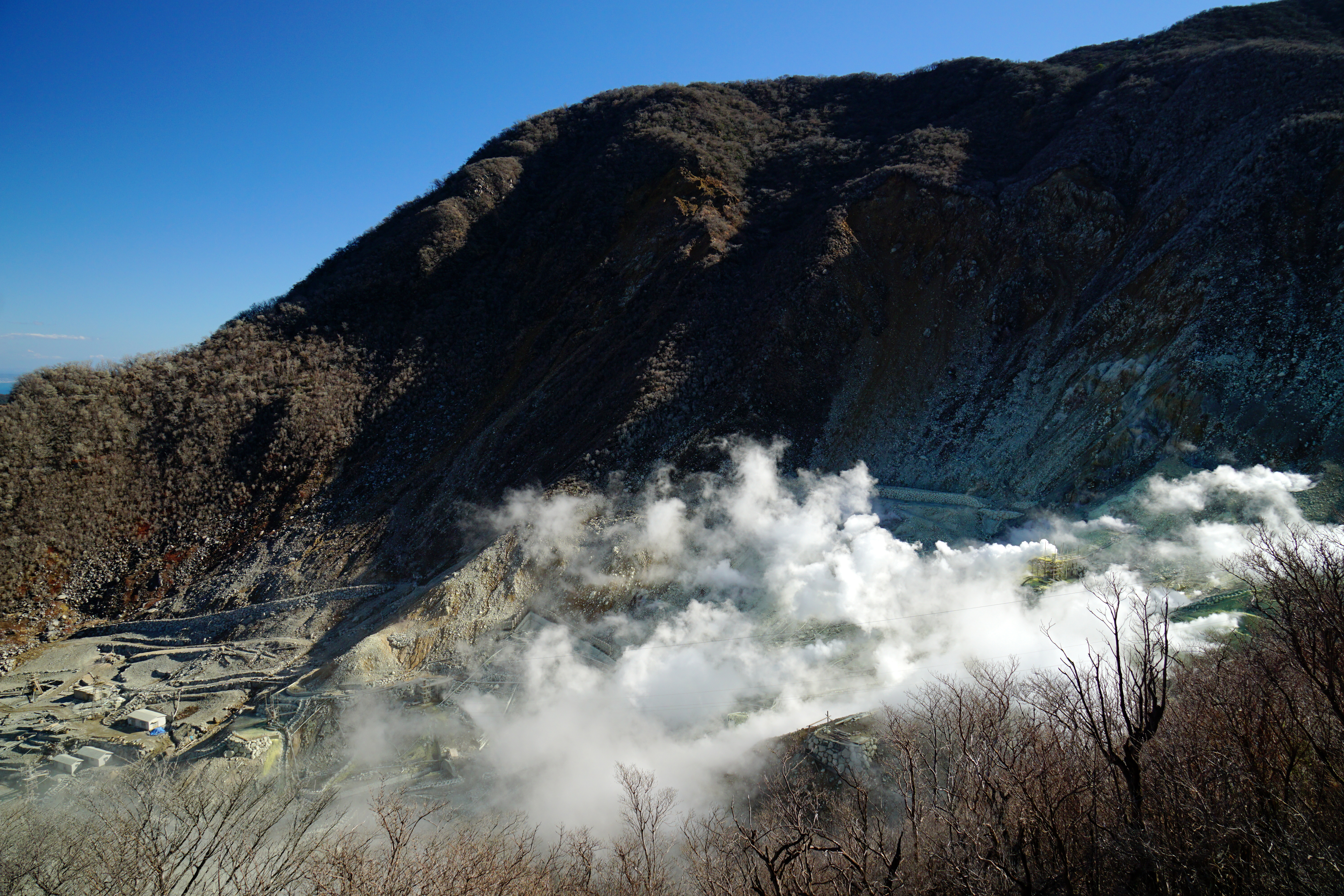 Ōwakudani in Hakone Kanagawa prefecture, Japan